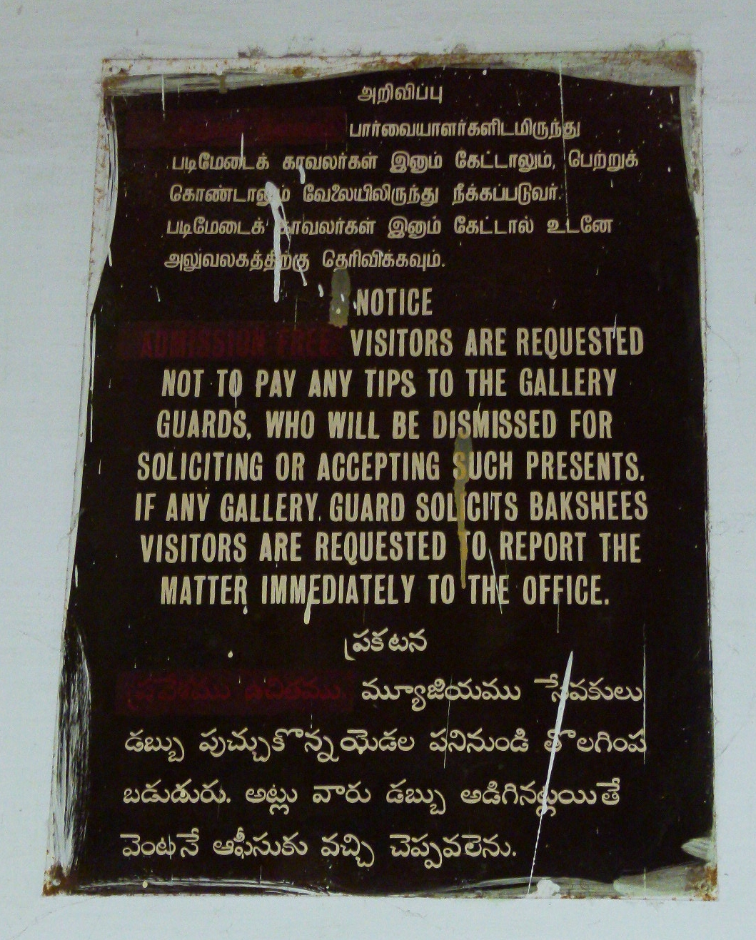 Notice in museum at Madras Government Museum. The part saying admission free has been covered. The founder of the Madras Museum, Edward Balfour, sought donations of exhibits from the public and therefore believed that it would not be right to charge the public.